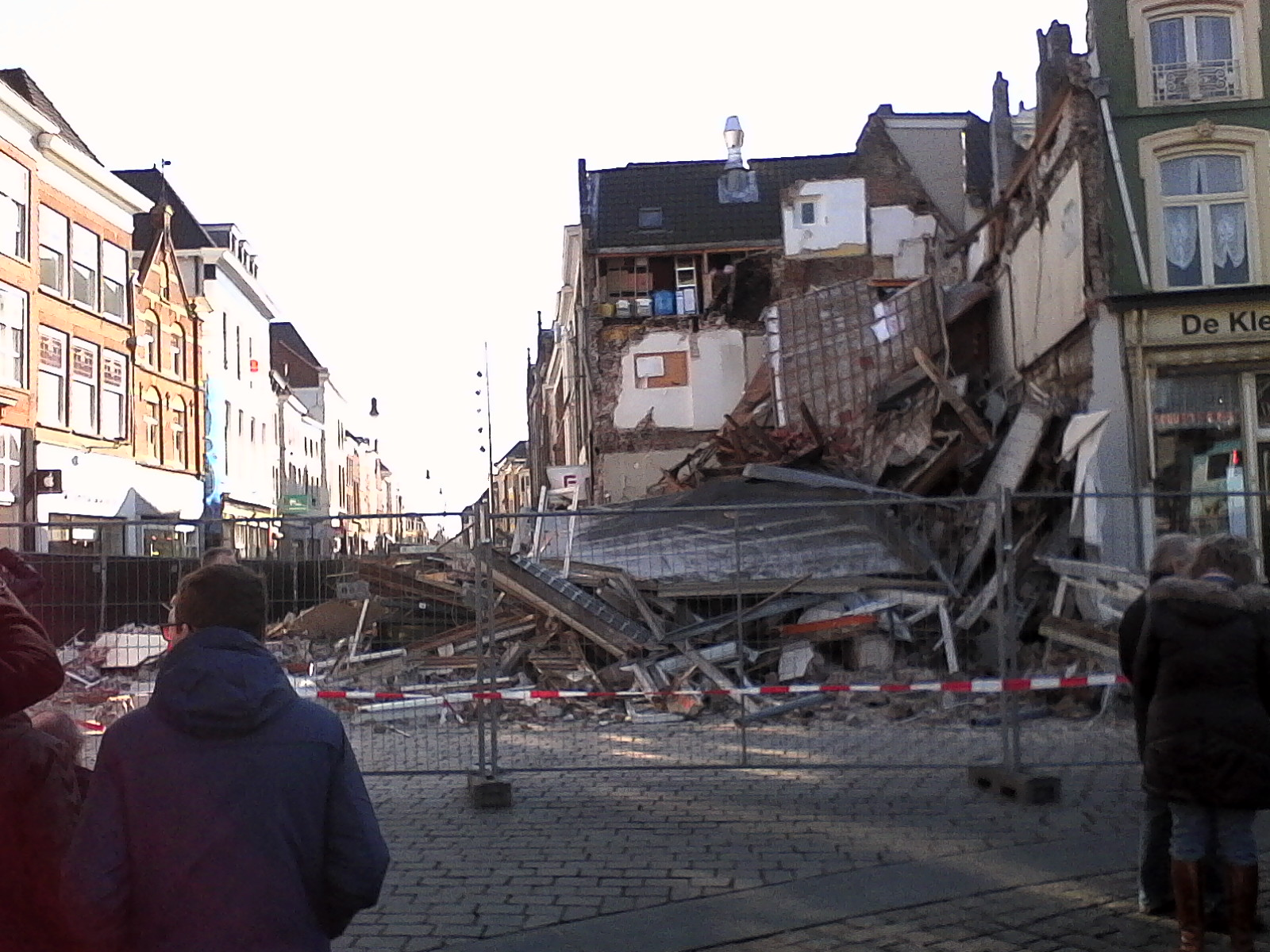 Rubble that remained after an old building on the Markt in 's-Hertogenbosch collapsed on 2016-02-28